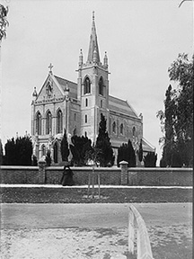 St Mary's Cathedral, Perth, Western Australia - view from the south west.